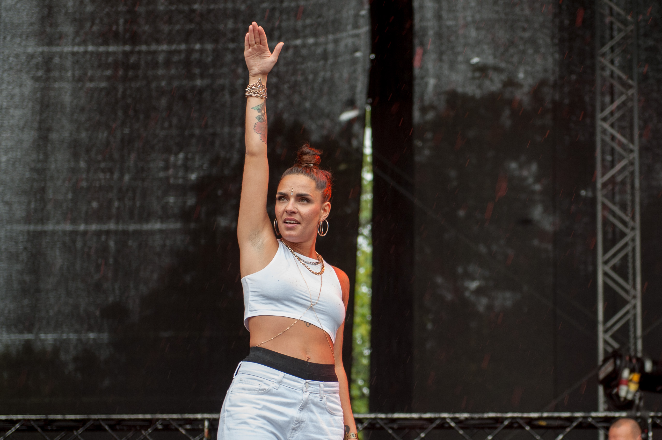 Cleo at Way Out West in Gothenburg, Sweden, august 2014